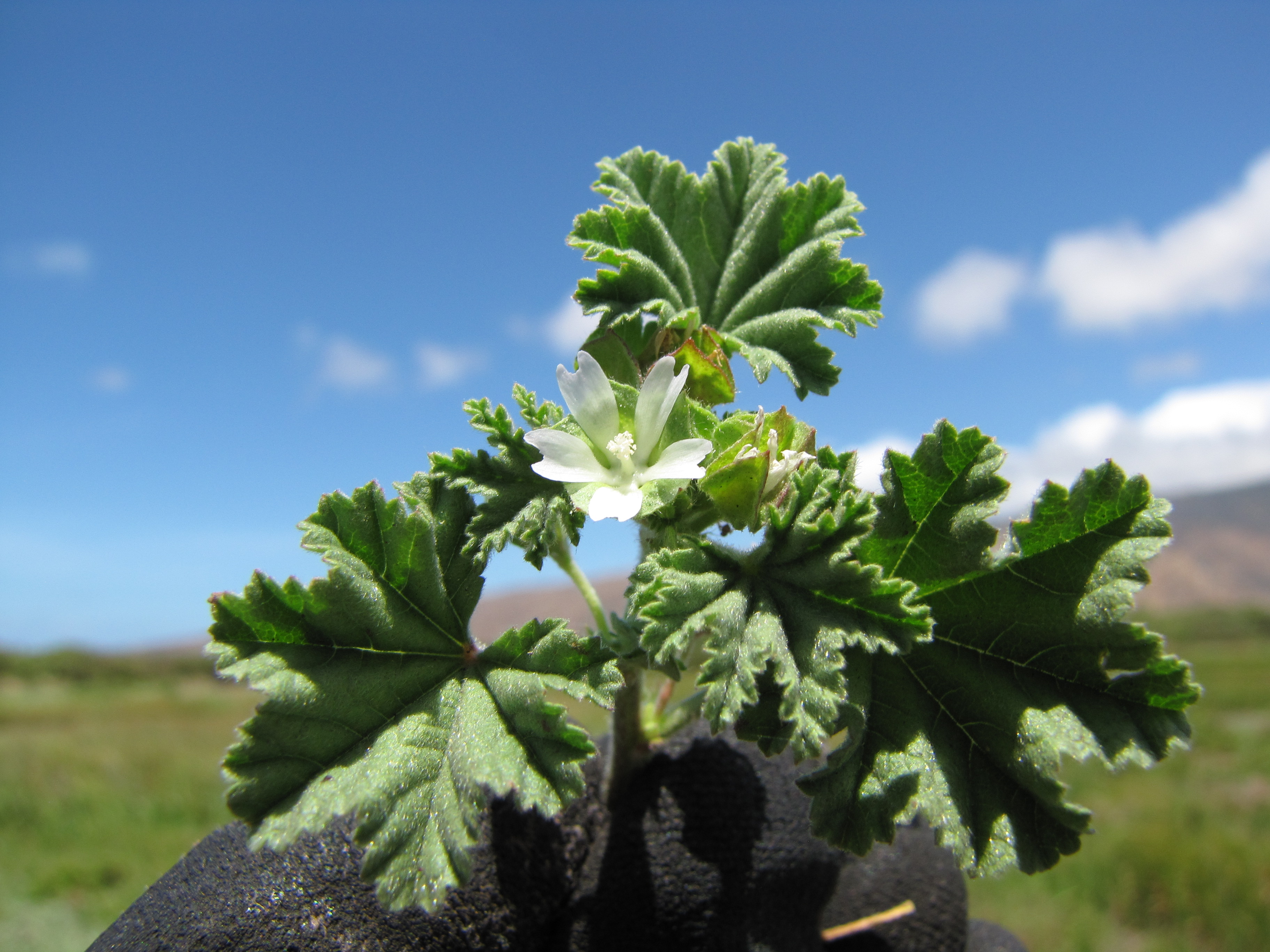 Malva parviflora (Cheese weed) Flower and leaves at Kealia Pond, Maui, Hawaii. July 02, 2013 #130702-5432 Image Use Policy